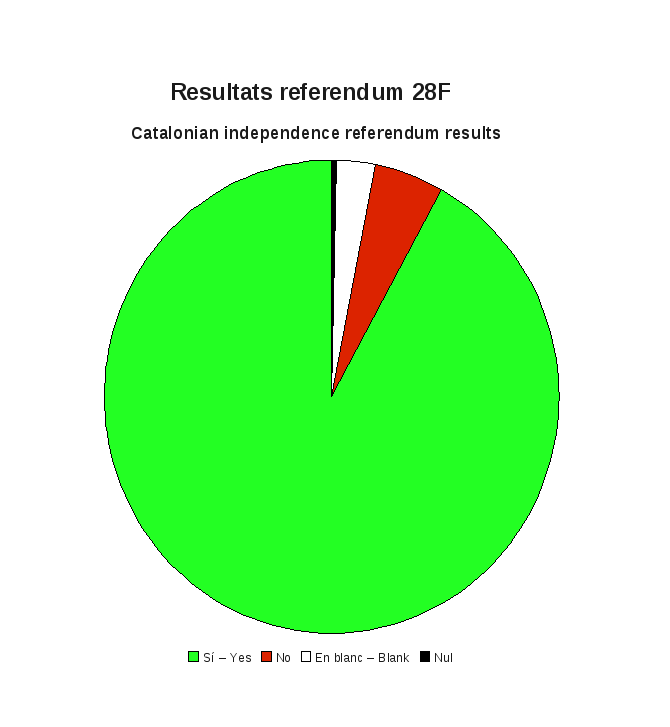 28th Decembre 2010 Catalonian independence referendums, 2009–2010 results. (